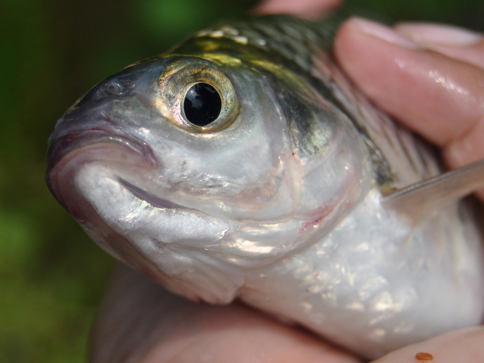 Tawes (Barbonymus gonionotus), 178mm SL; from Tasikmalaya, West Java, Indonesia. Snout and chin.